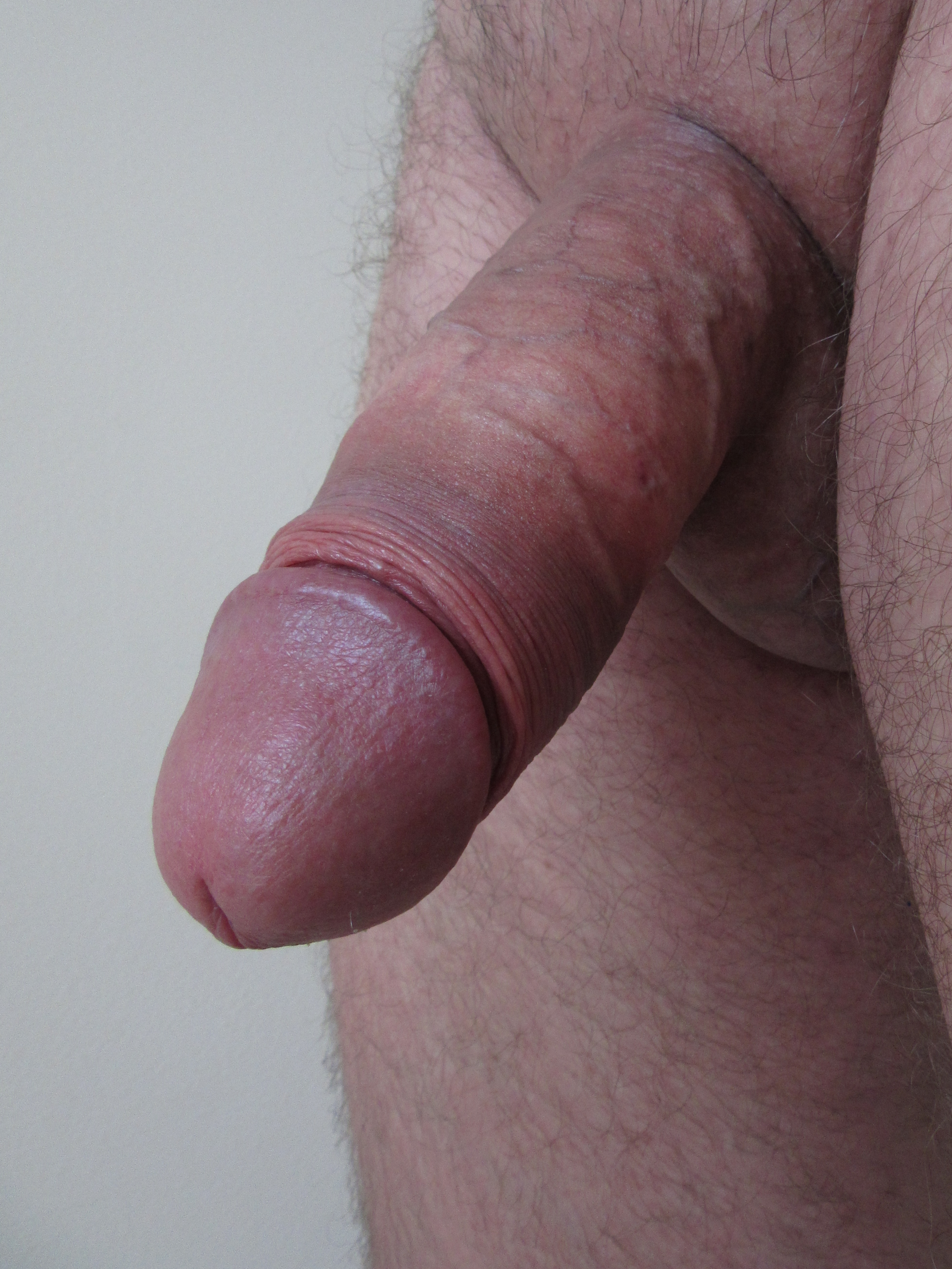 External human male genitalia